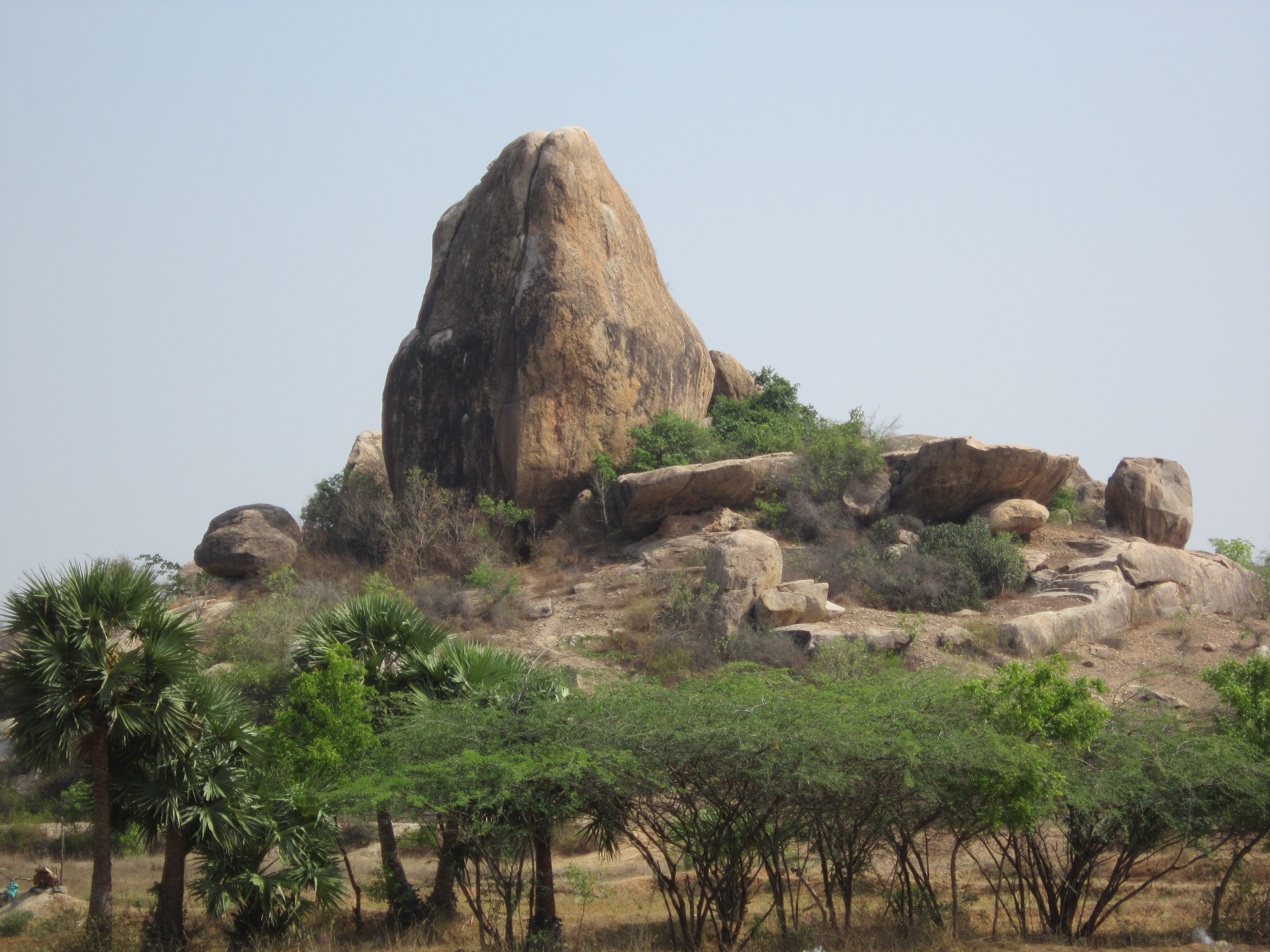 for wiki